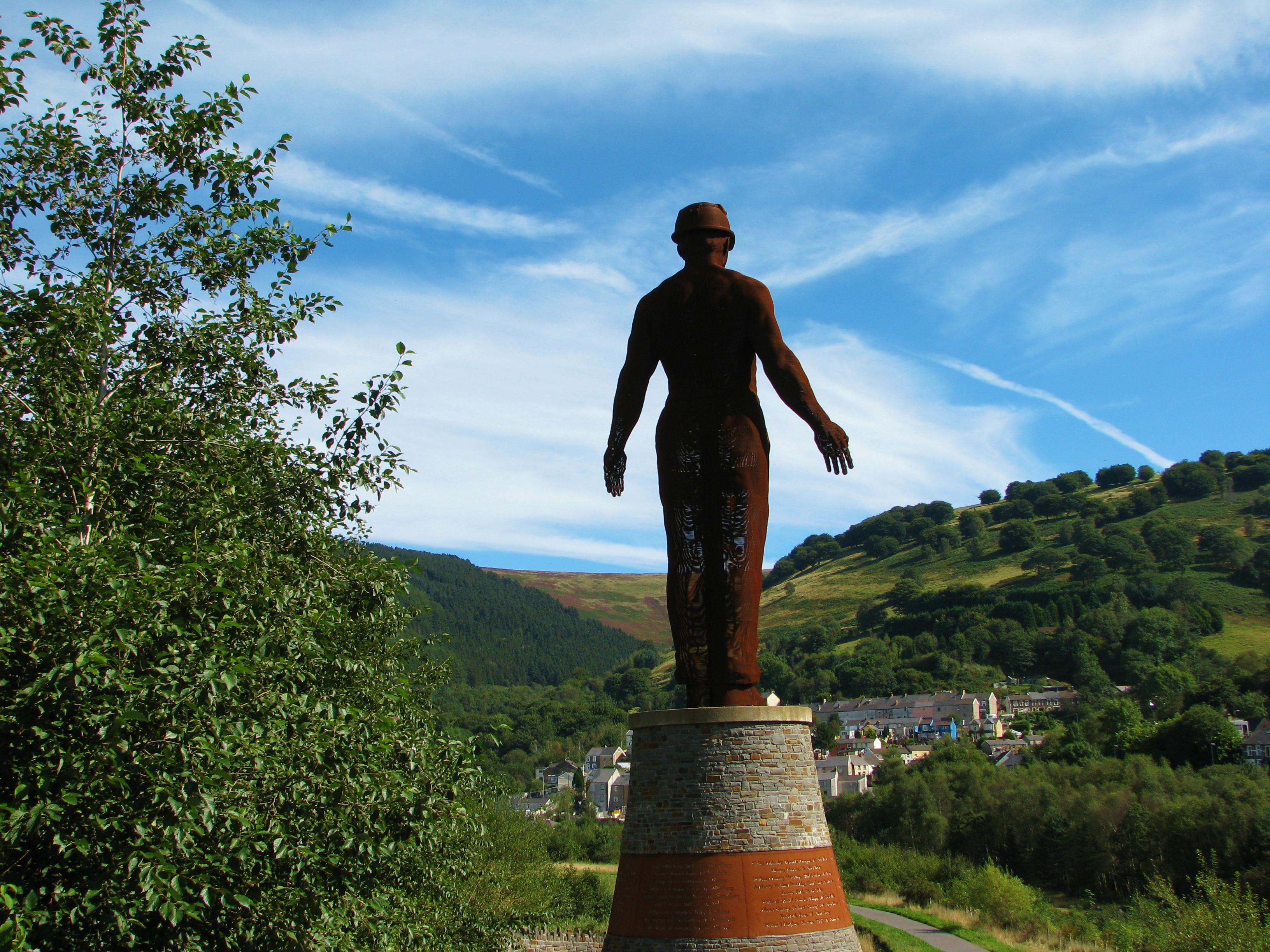 Overlooking the community